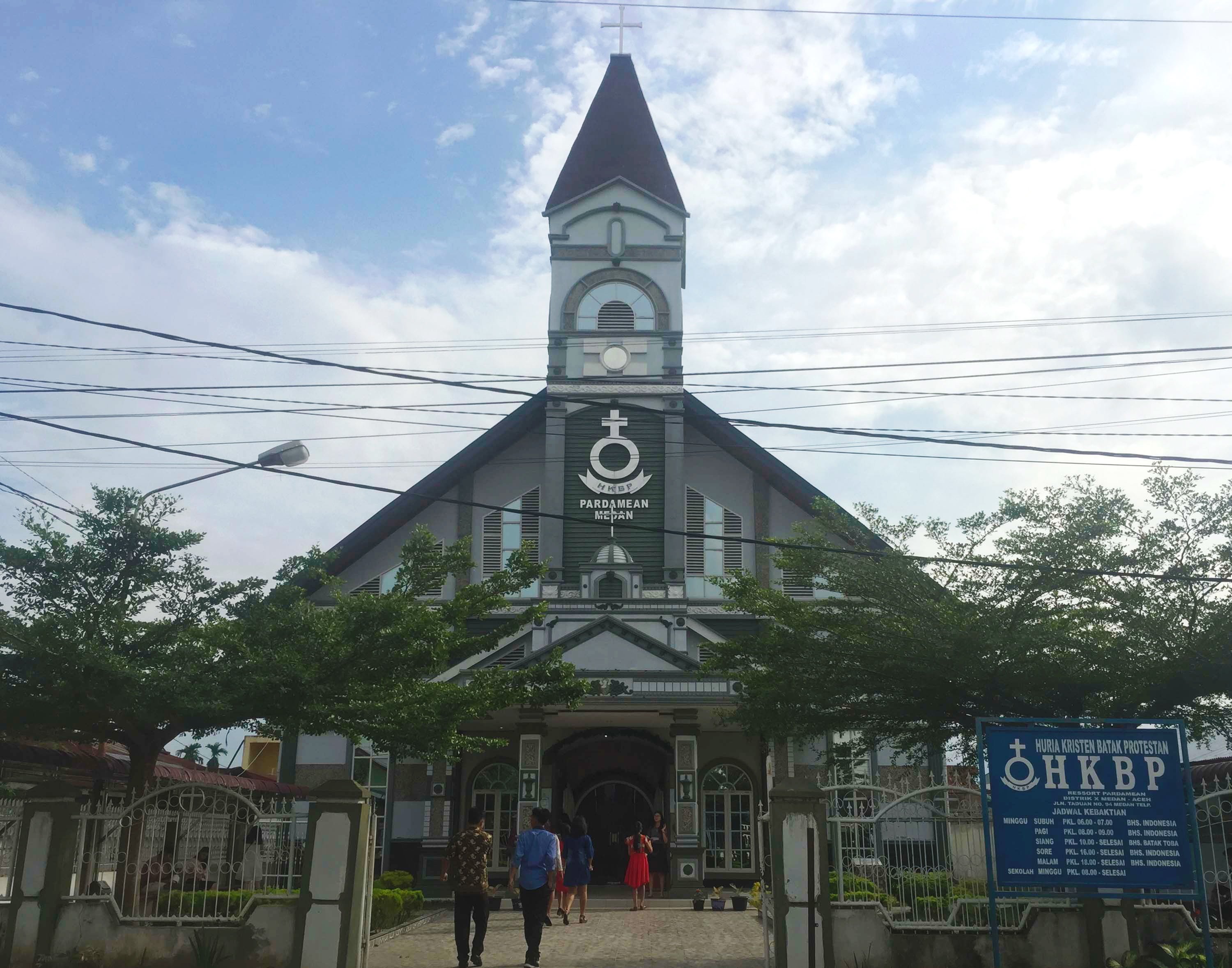 HKBP Pardamean, church in Sidorejo, Medan Tembung, Medan